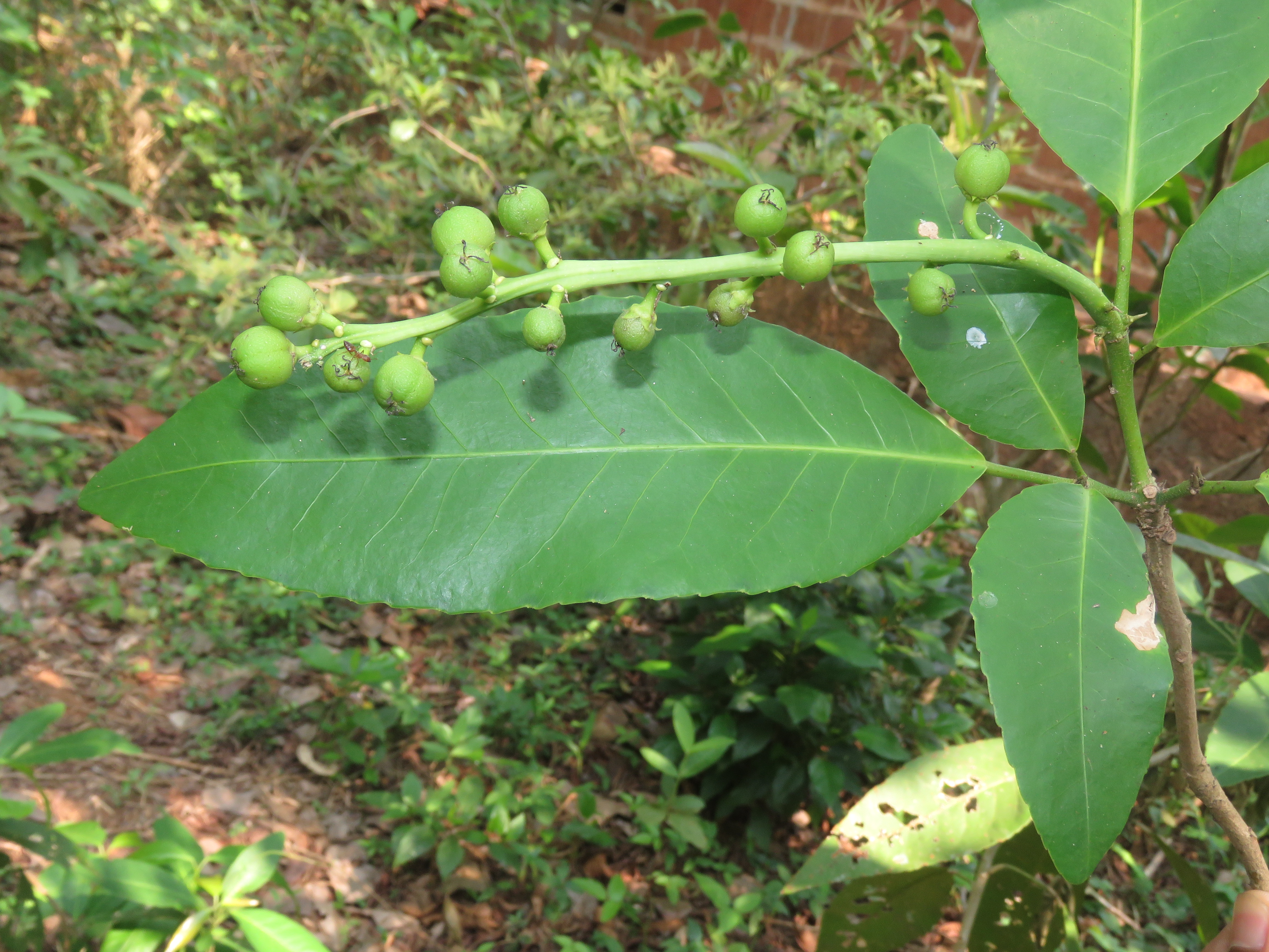 Photos from Peravoor 2018